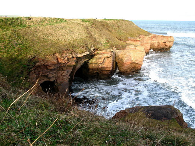 Cliffs from Berwickshire Coastal path Craggy cliffs and caves